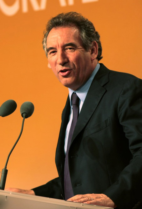 François Bayrou speaking at the beginning of a national conférence held at Hotel Marriot in Paris, 2 weeks before the 2009 european elections.